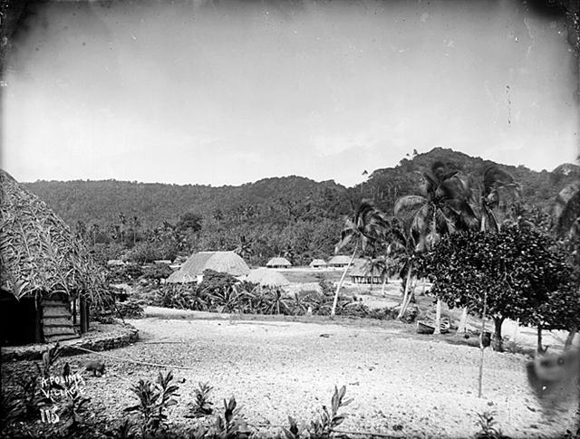 Village in Apolima Island, Samoa. Gagana Samoa: O le nu'u i le motu o Apolima, Samoa.